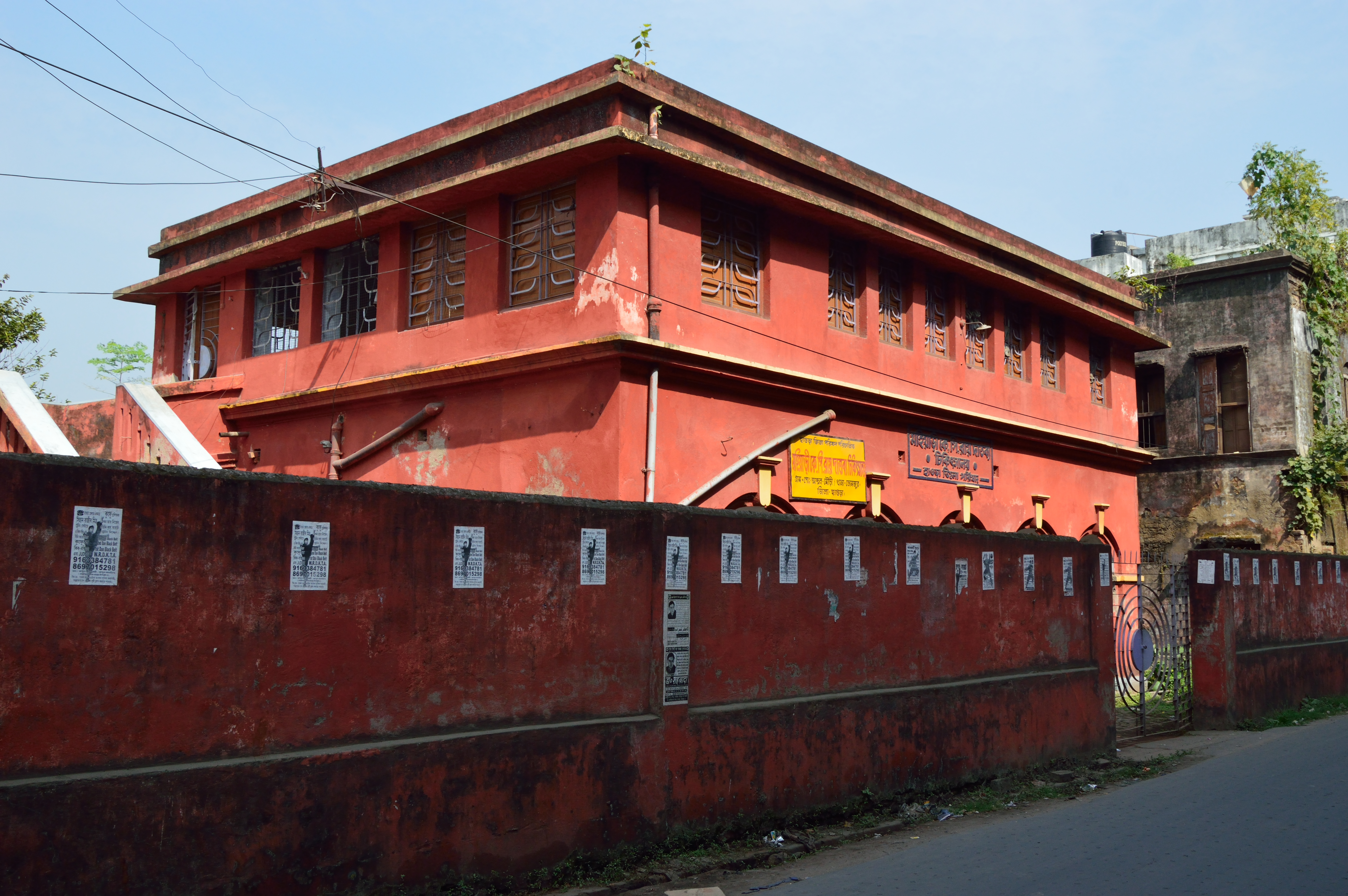 Photographed at Mohiari or Mahiari, Andul-Mouri, Howrah.